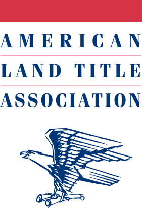 This is the logo for the American Land Title Association